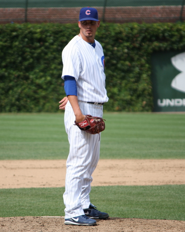 Scott Maine on the mound with the Chicago Cubs in 2010.